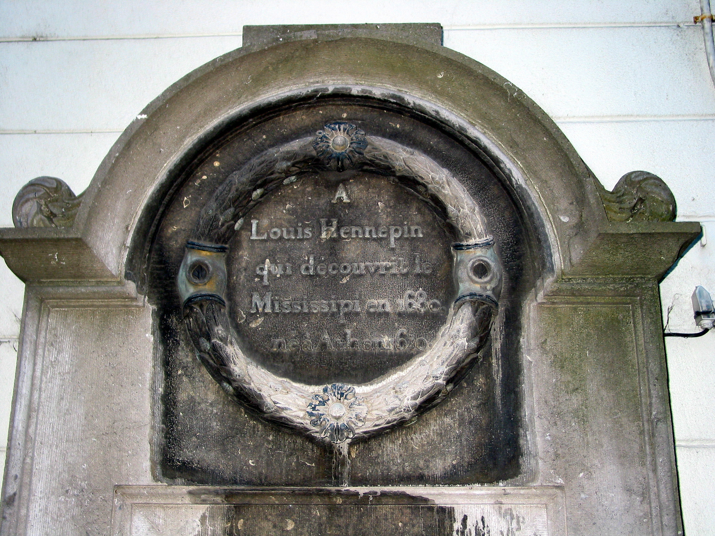 Ath (Belgium), round title of the Hennepin pump (1820).